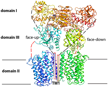 A cartoon architecture of the holo-Transhydrogenase dimer. The three conserved domains are shown in different colors. The heterotrimer on the right is in a different orientation than the heterotrimer on the left (Specifically, the orientation of domain III is inverted).